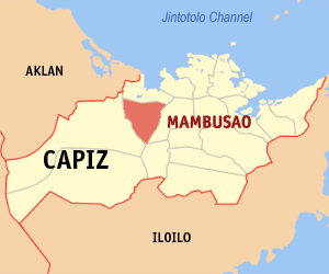 Map of Capiz showing the location of Mambusao